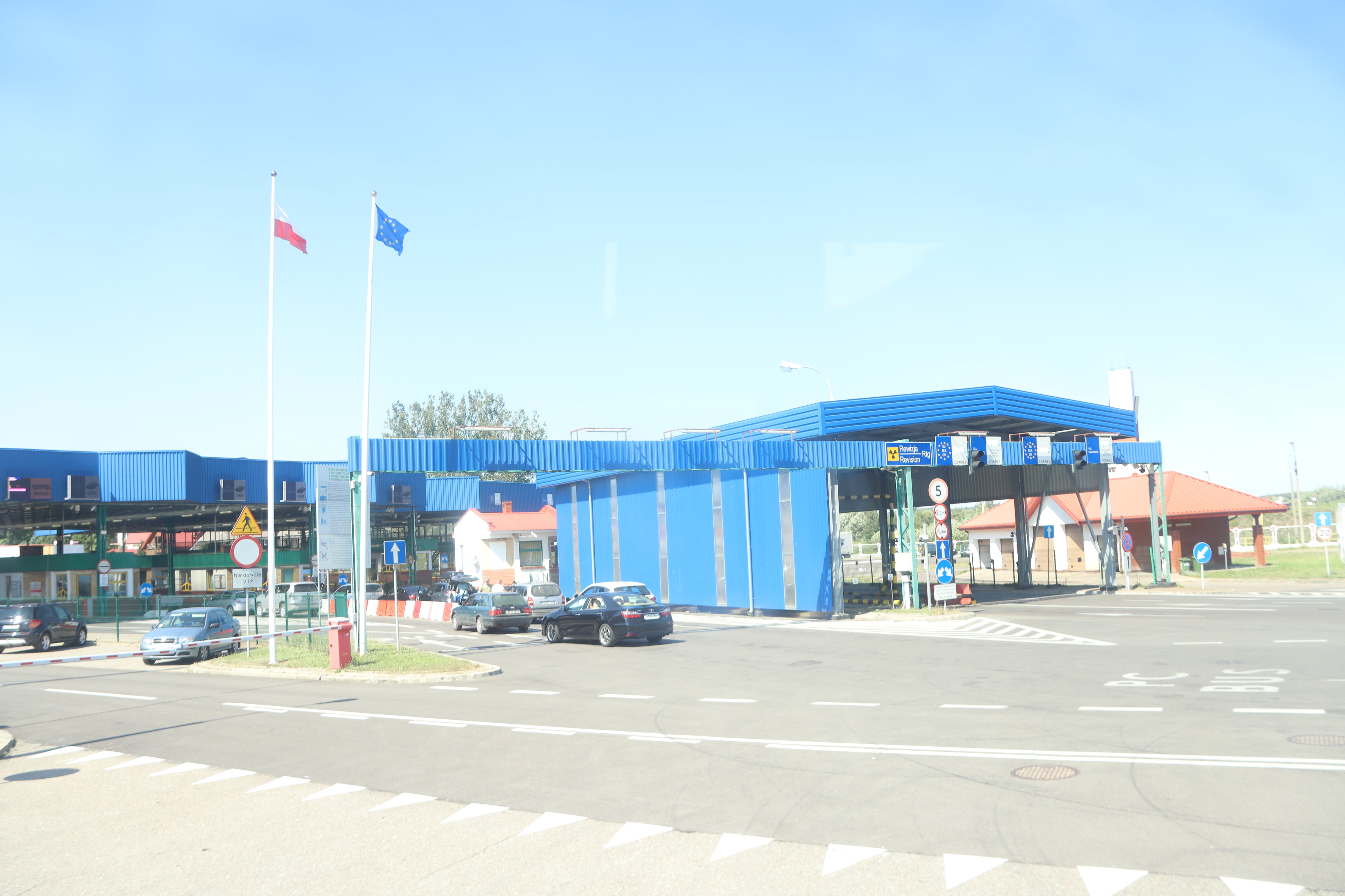 Berastavitsa-Bobrowniki border checkpoint